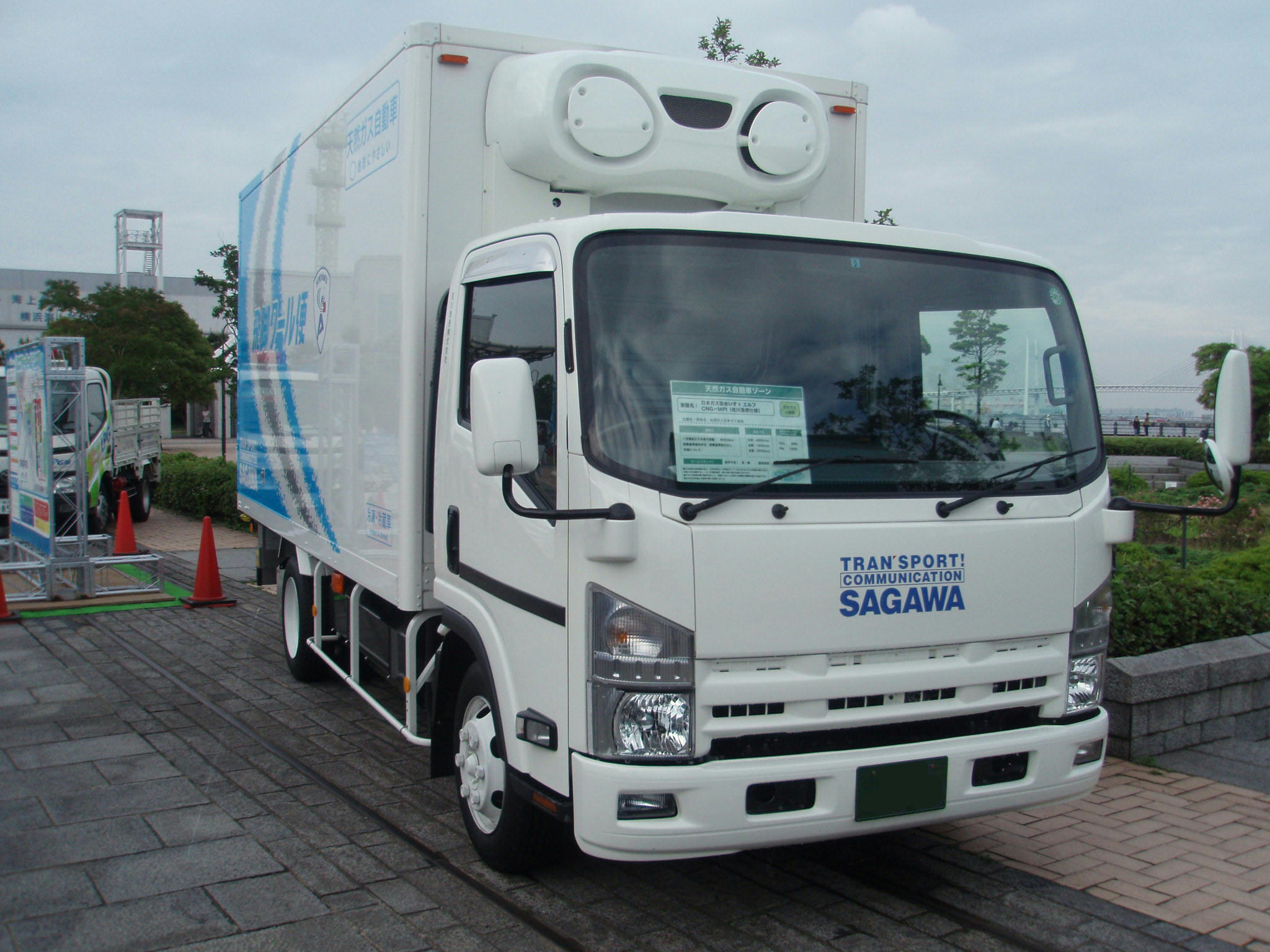 ISUZU_ELF CNG-MPI (Sagawa Express Version)